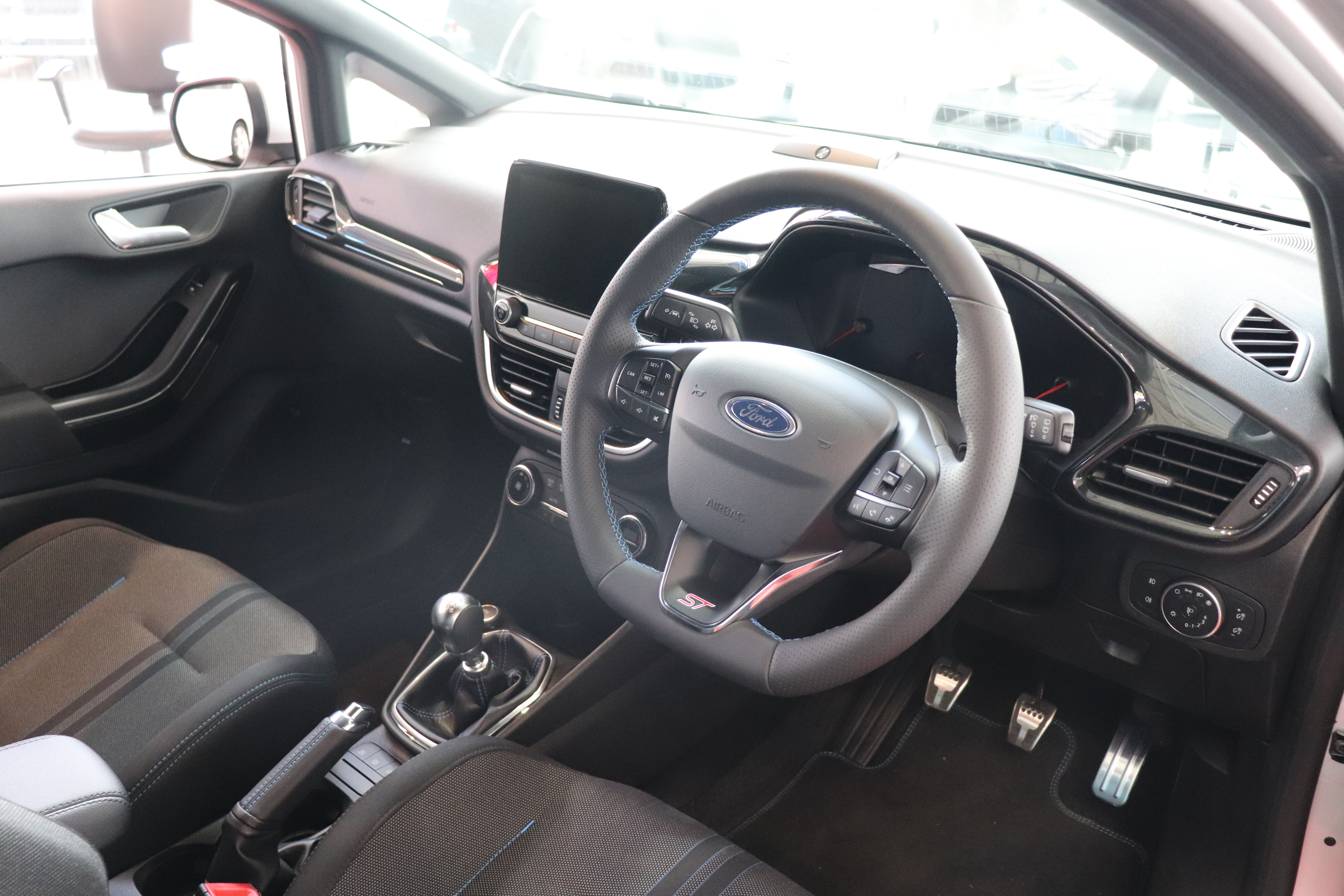 2018 Ford Fiesta ST 1.5 Interior Taken in Leamington Spa